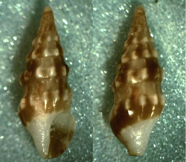 Clavus formosus (Reeve, 1846); family Drilliidae; Kwajalein Atol